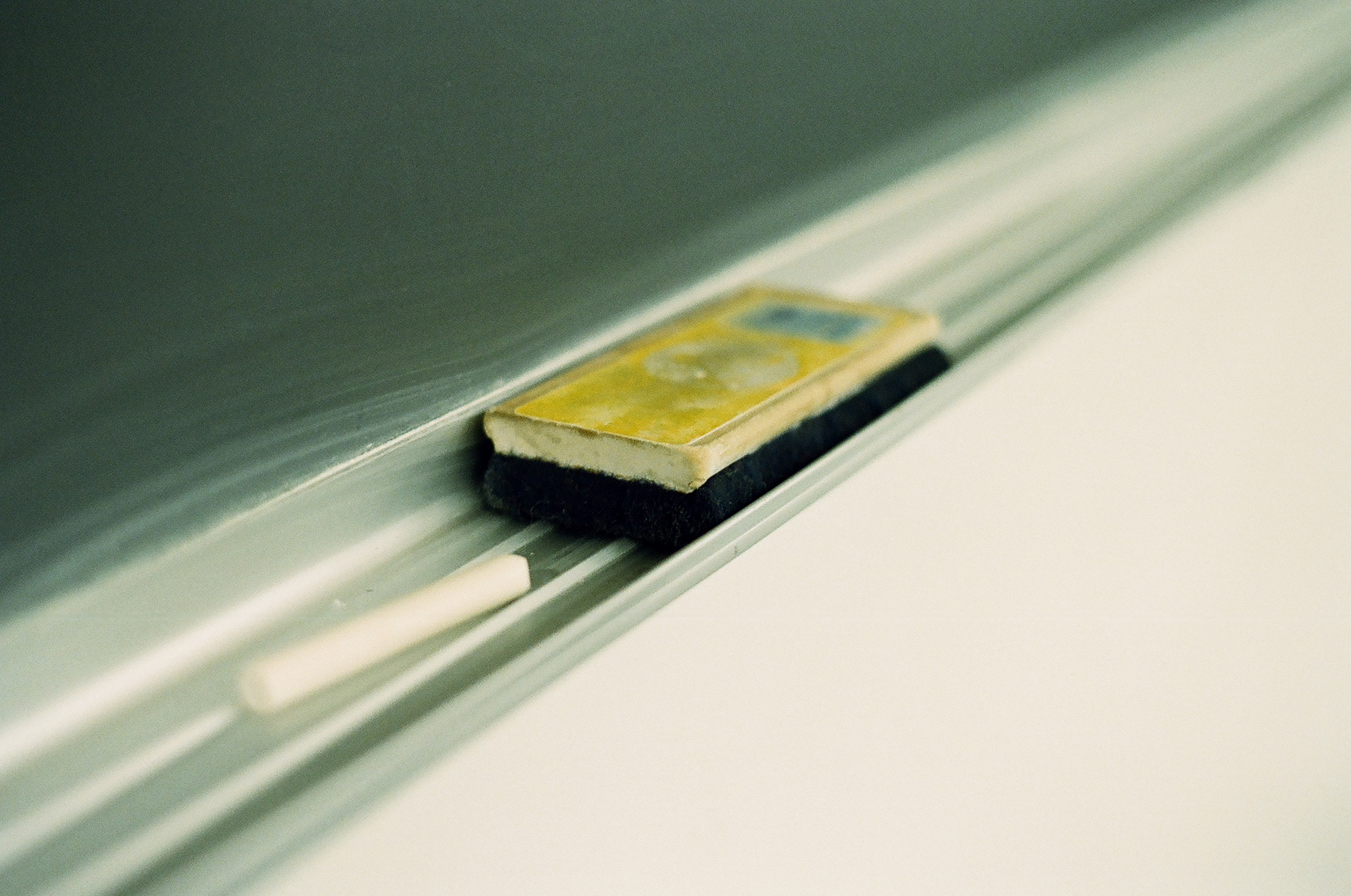 Piece of chalk and blackboard